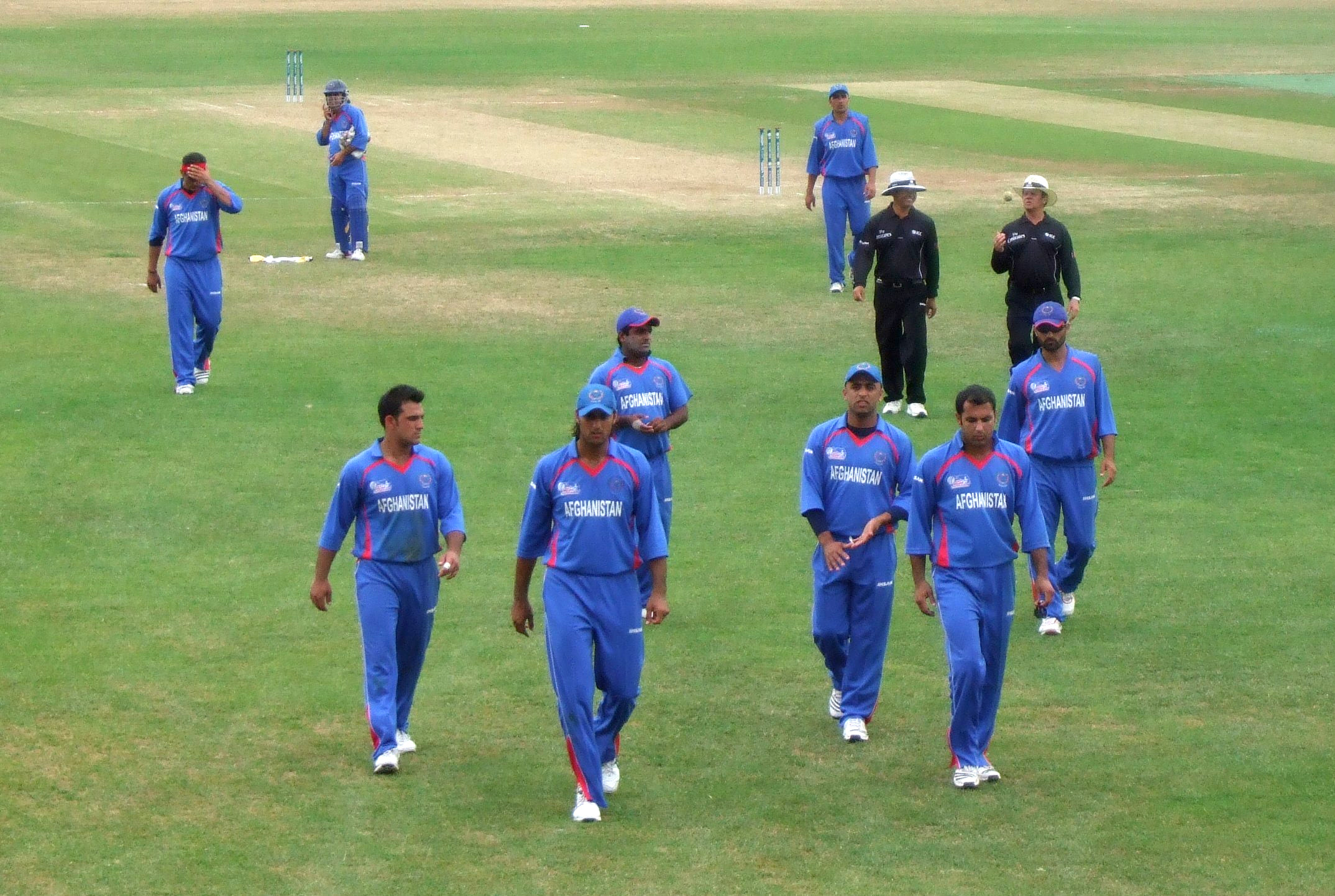 The Afghanistan team walking off the field at the conclusion of the first innings of their World Cricket League Division One match against Ireland at the Hazelaarweg Stadion, Rotterdam.